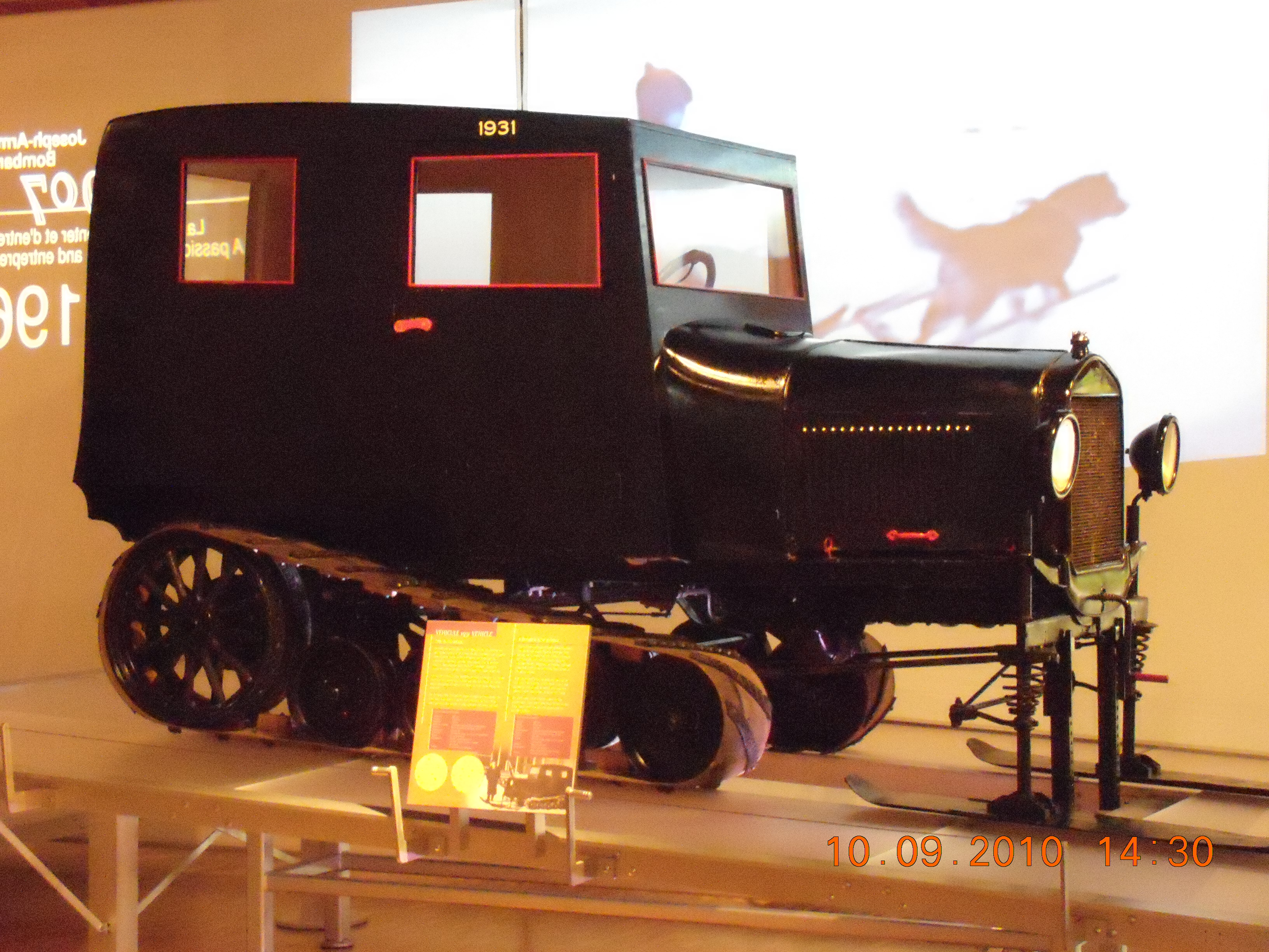 Bombardier 1931 snow vehicle.